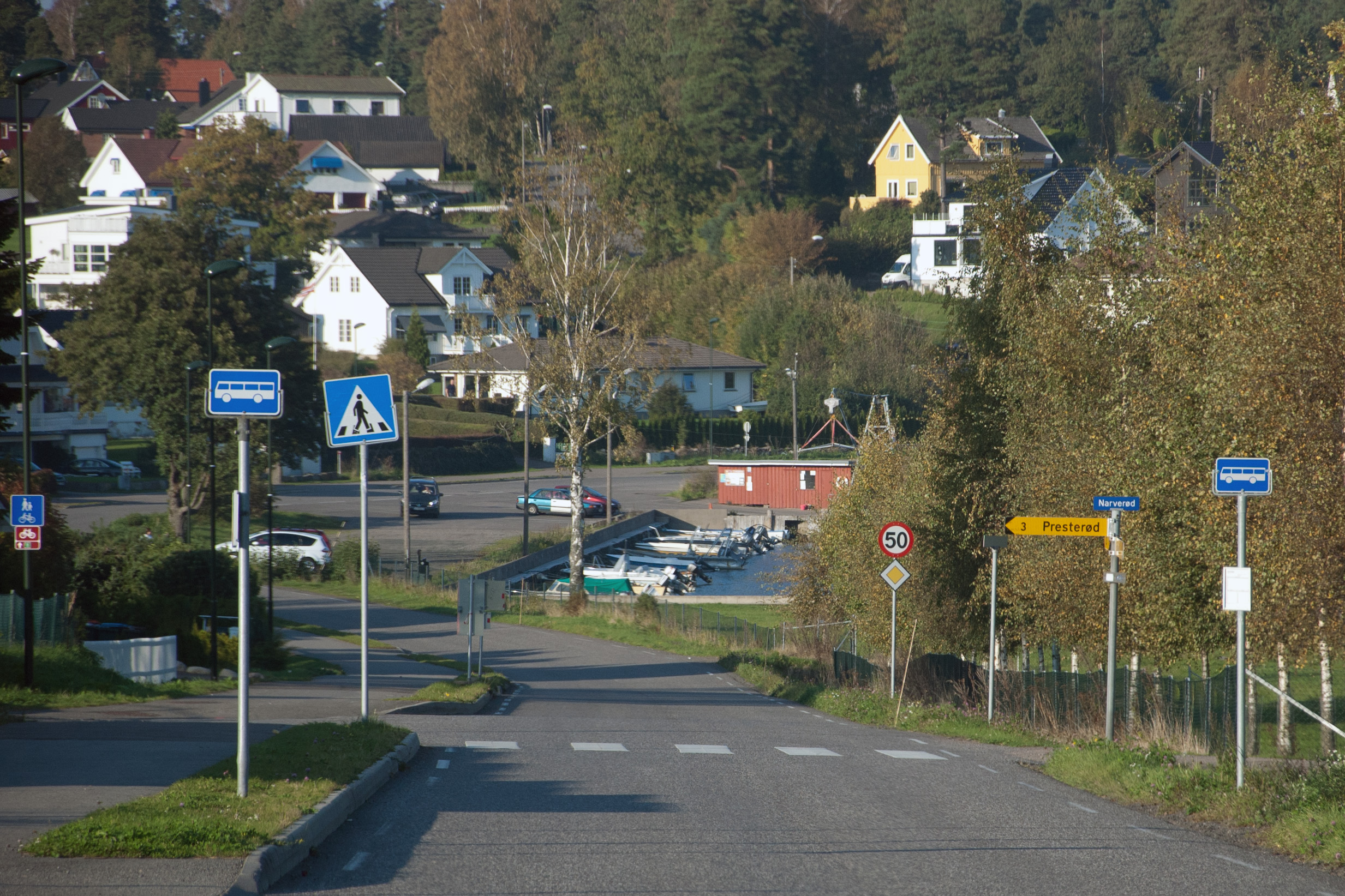 County road 505 Husvikveien in Tønsberg, Vestfold county, Norway.